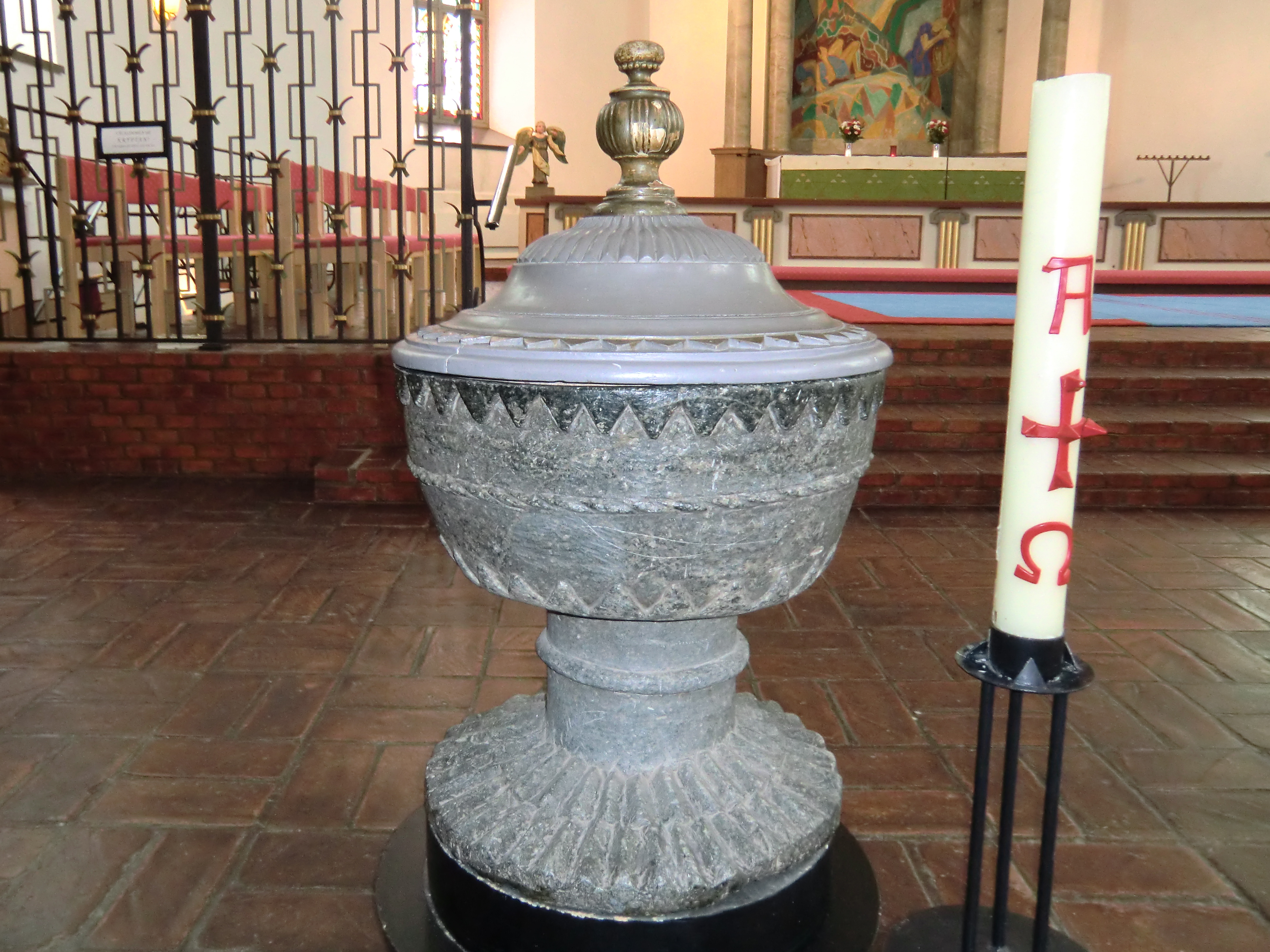 Baptismal font of Sunne church in Sunne, Värmland, Sweden.